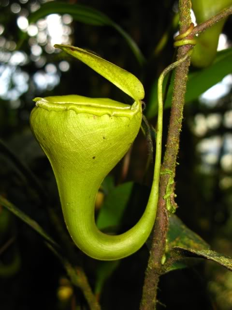 Nepenthes flava growing in Sumatran mossy forest under a ~10 m high canopy (1850-2000 m asl)